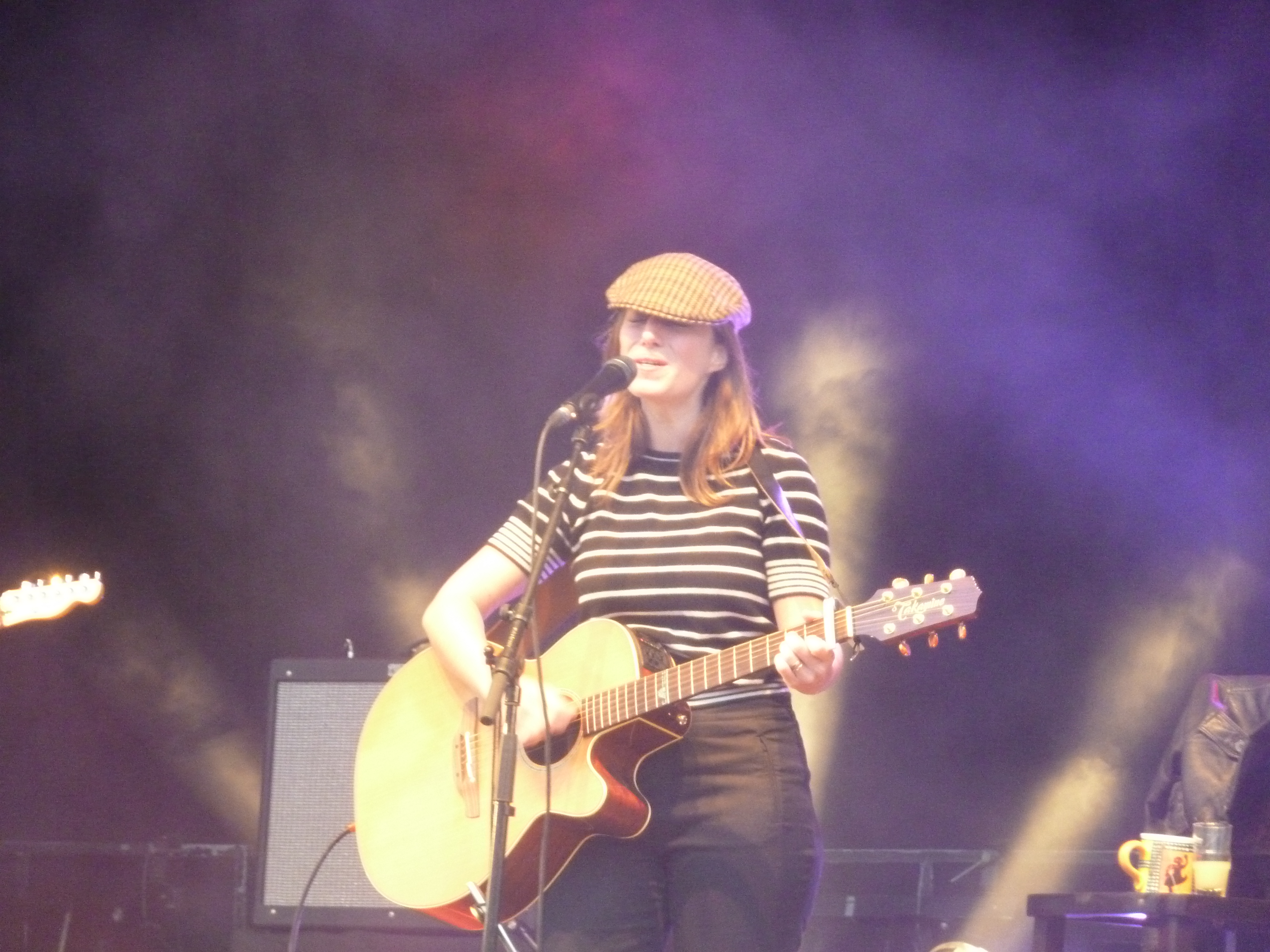 Opening Marseille-Provence 2013, Arles (13), France. 13.01.2013 / Anaïs Croze